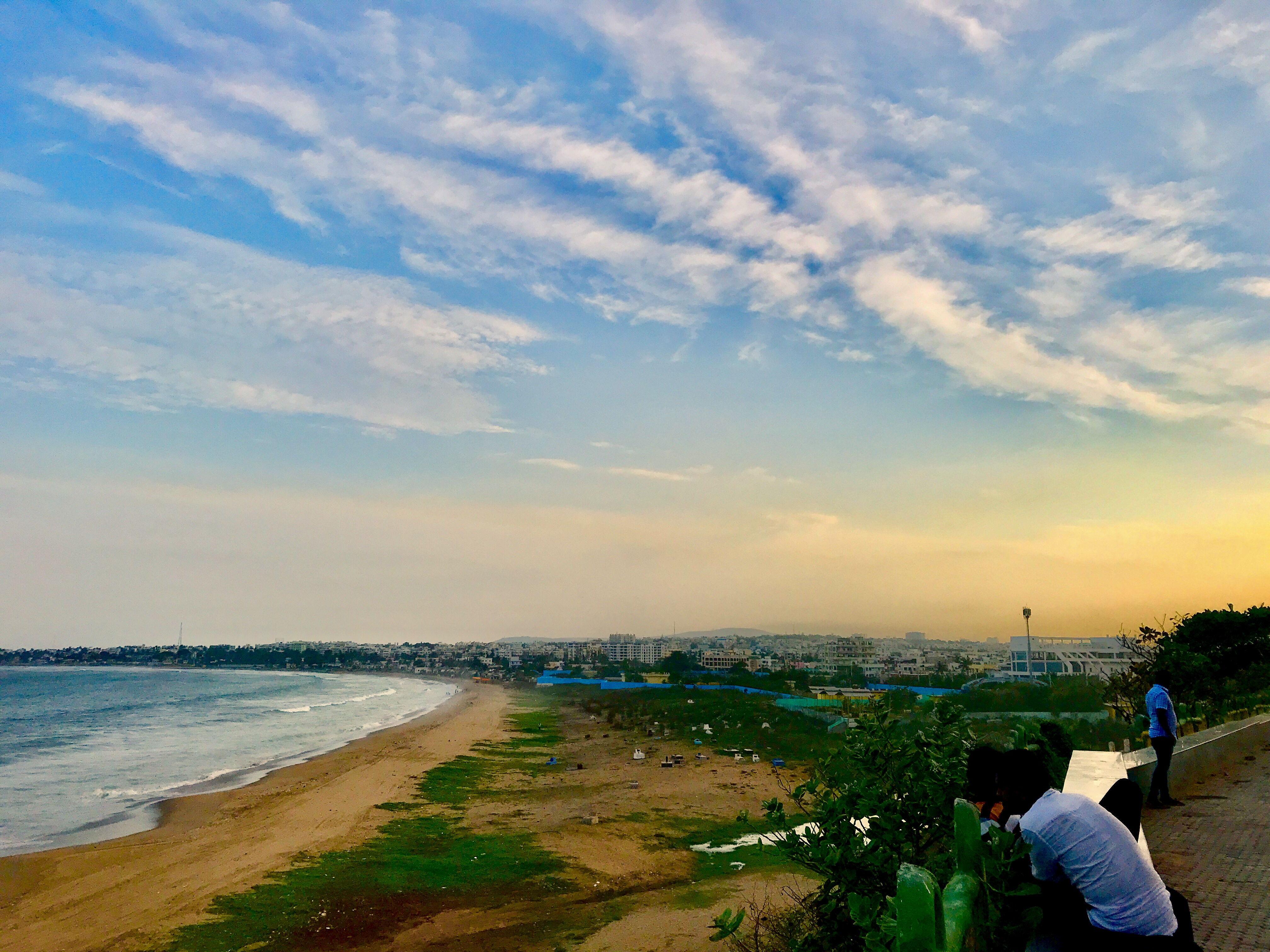 Beautiful view of Visakhapatnam and Bay of Bengal from Tenneti park